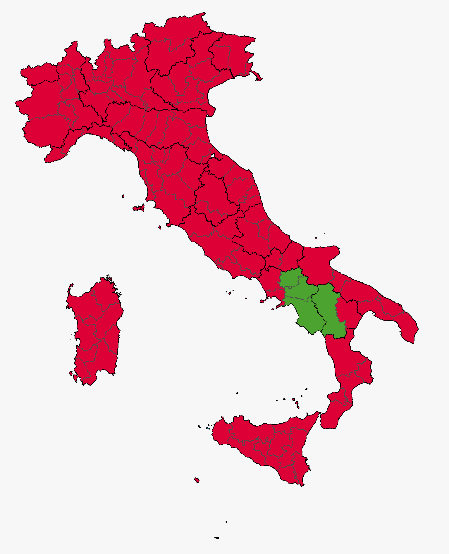 This is a map of the Democratic Party leadership election, 2017. Zingaretti Martina